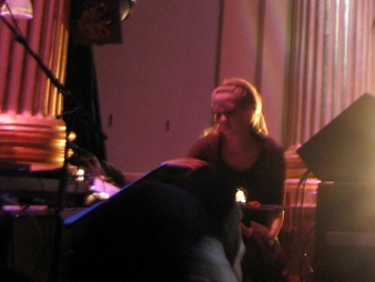 Alexandra Dahlström in concert in Stockholm, Sweden.